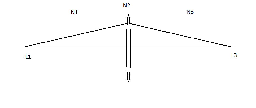 Deduction of thin lens formula